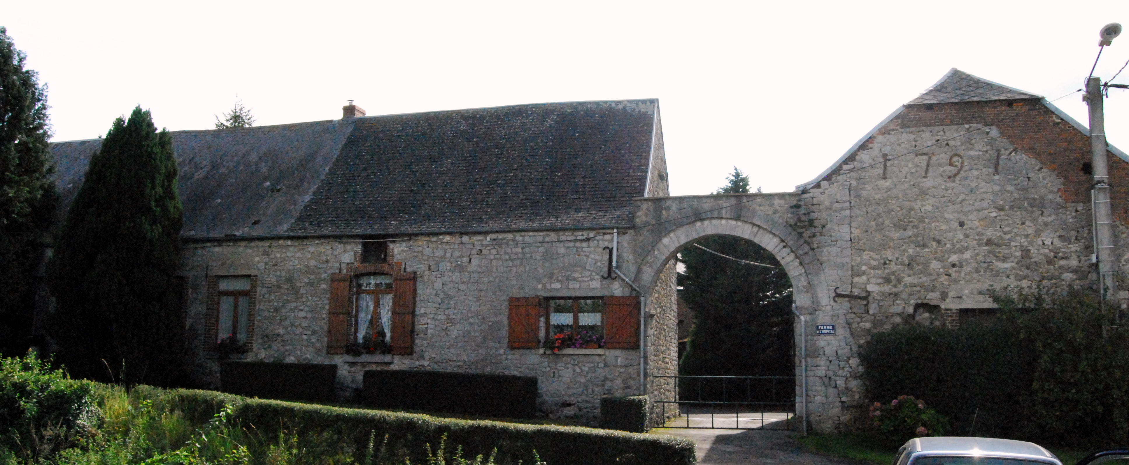 Commandery of Hospital, now farm of the hospital. Rear view. Site : Ecuélin, Nord, France